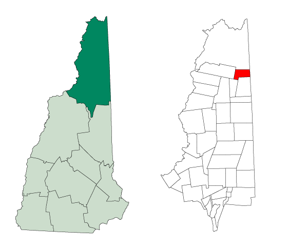 Map of a municipality in Coos County, New Hampshire